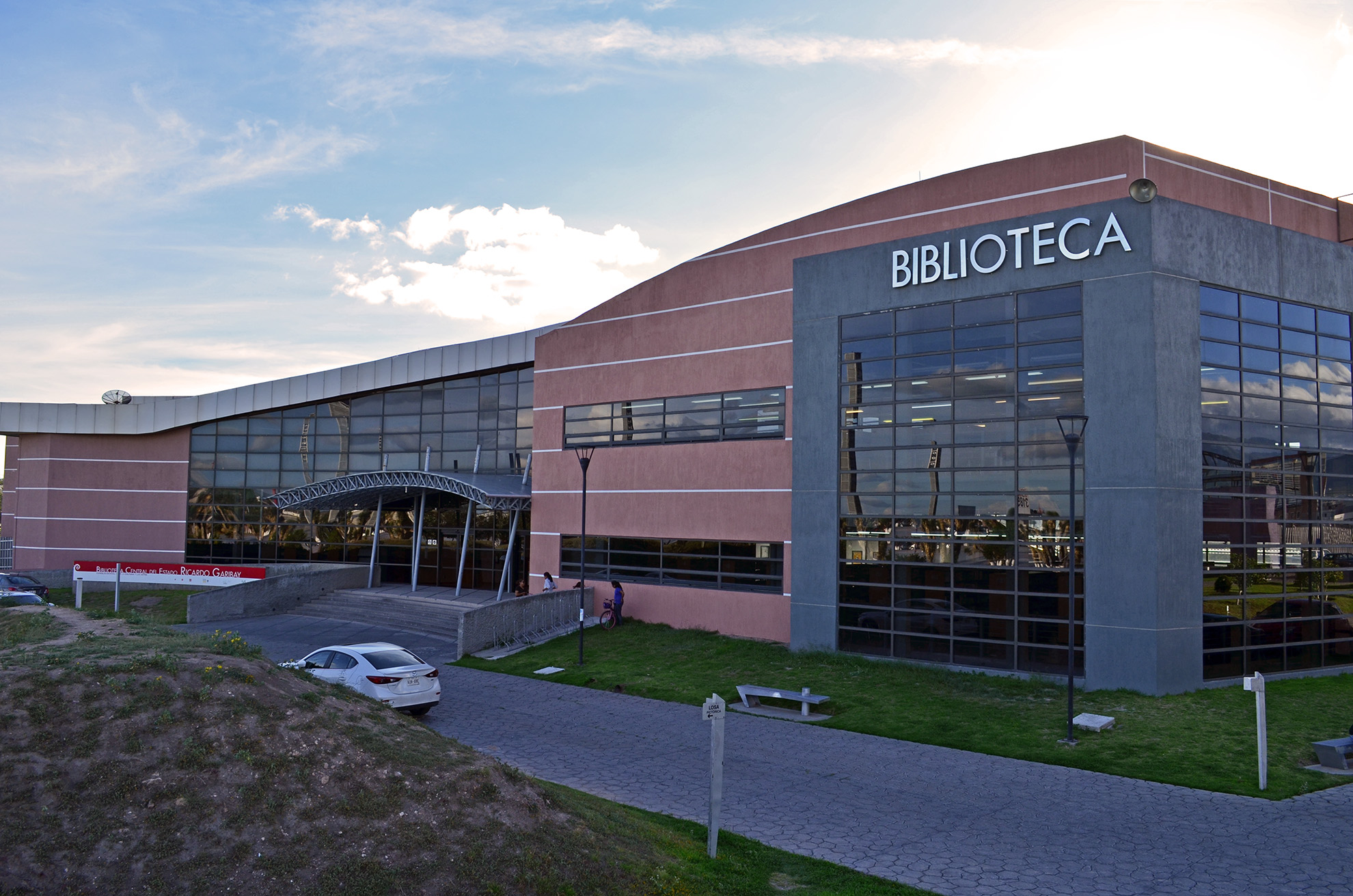 Main entrance of the Biblioteca Central del Estado "Ricardo Garibay".